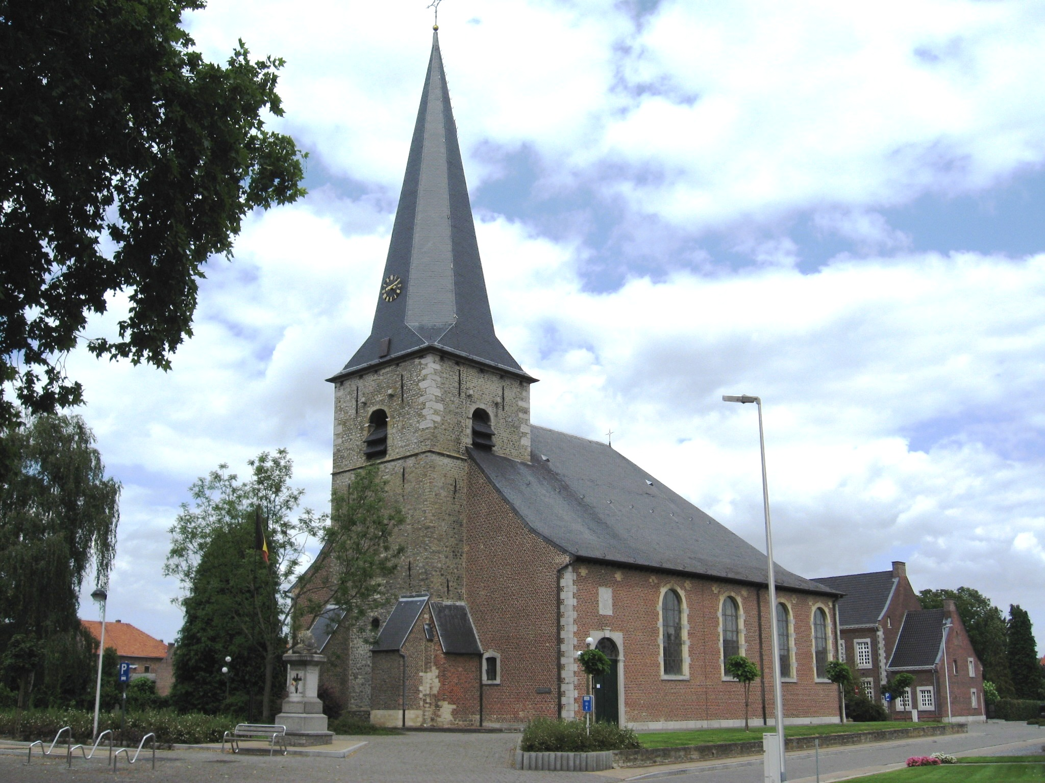 Church of Saint Vedast in Hoepertingen, Borgloon, Limburg, België